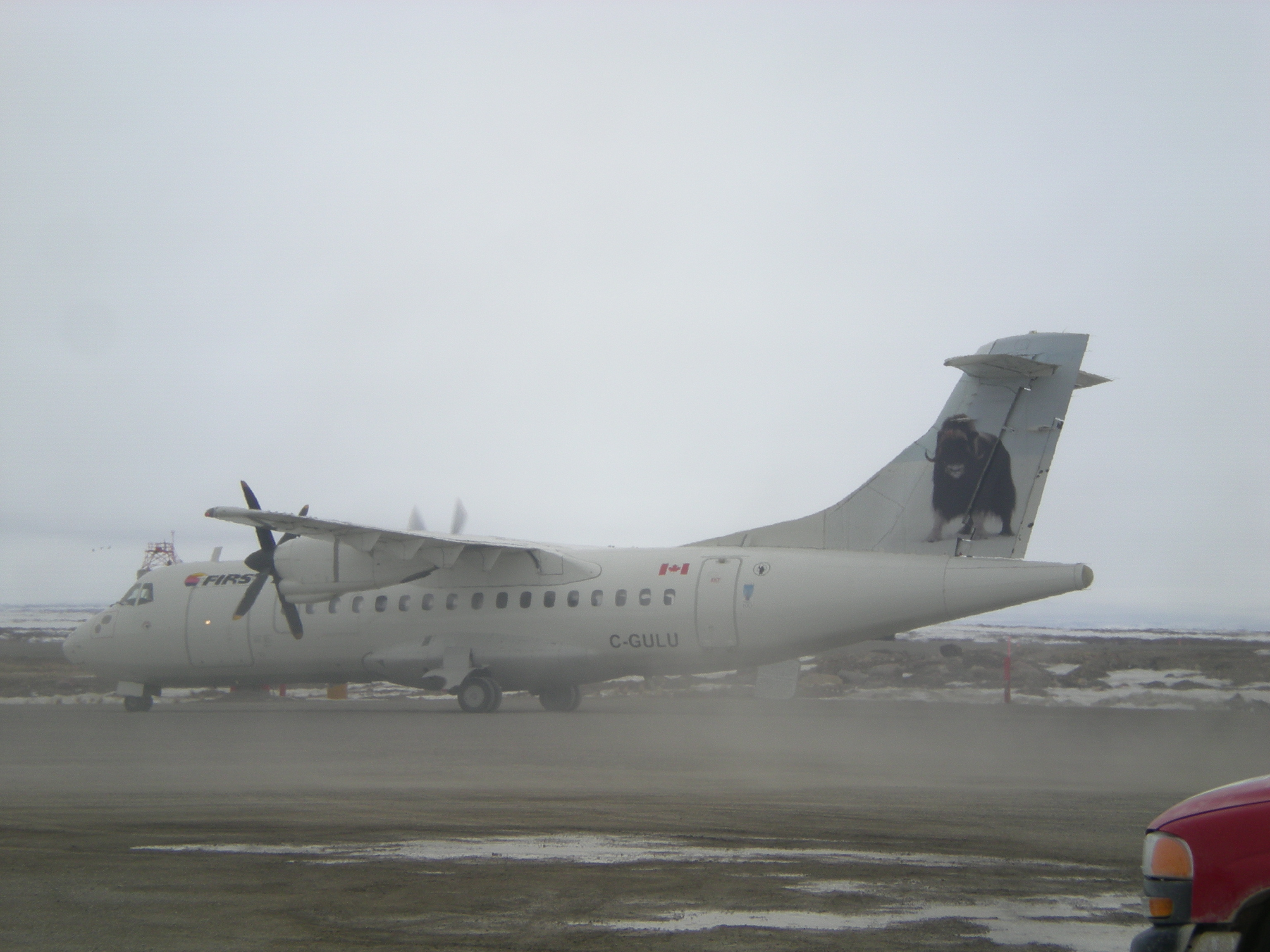 GULU First Air AT43 ATR 42